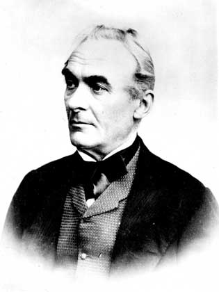 Фотография французского писателя Проспера Мериме